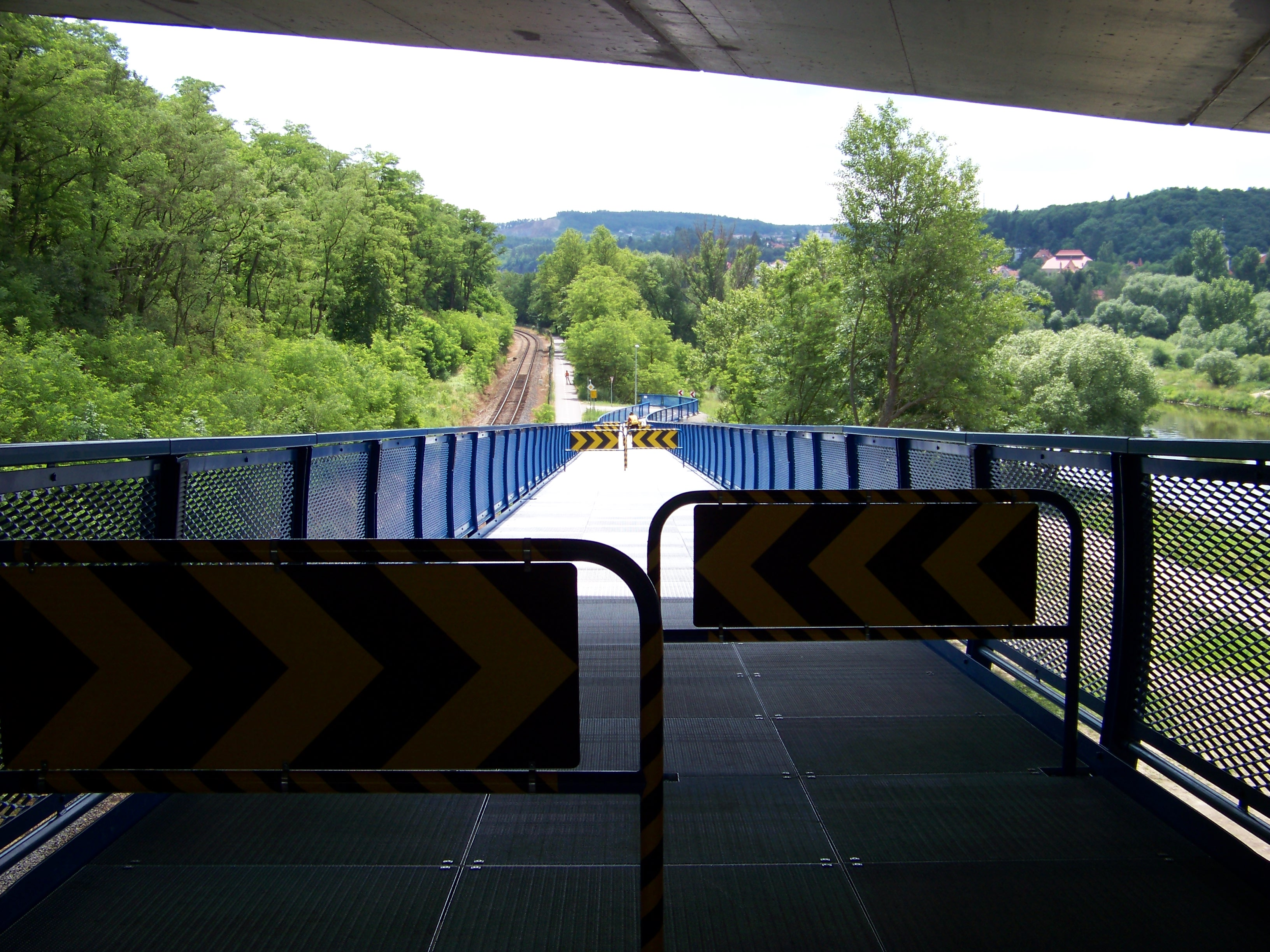 Prague-Komořany and Lahovice, Czech Republic. Radotínský most, a ramp of the footbridge.